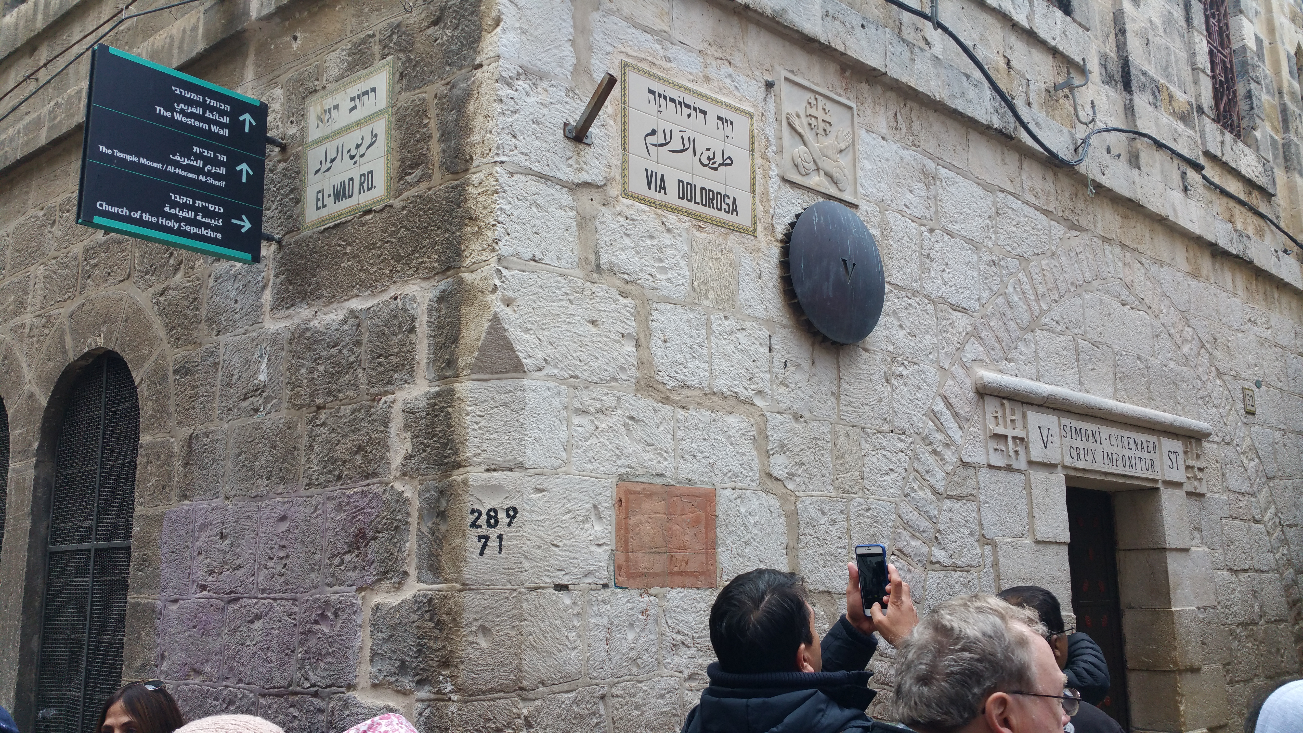 Station Six - Jesus is helped by Simon of Cyrene to carry his cross Jerusalem